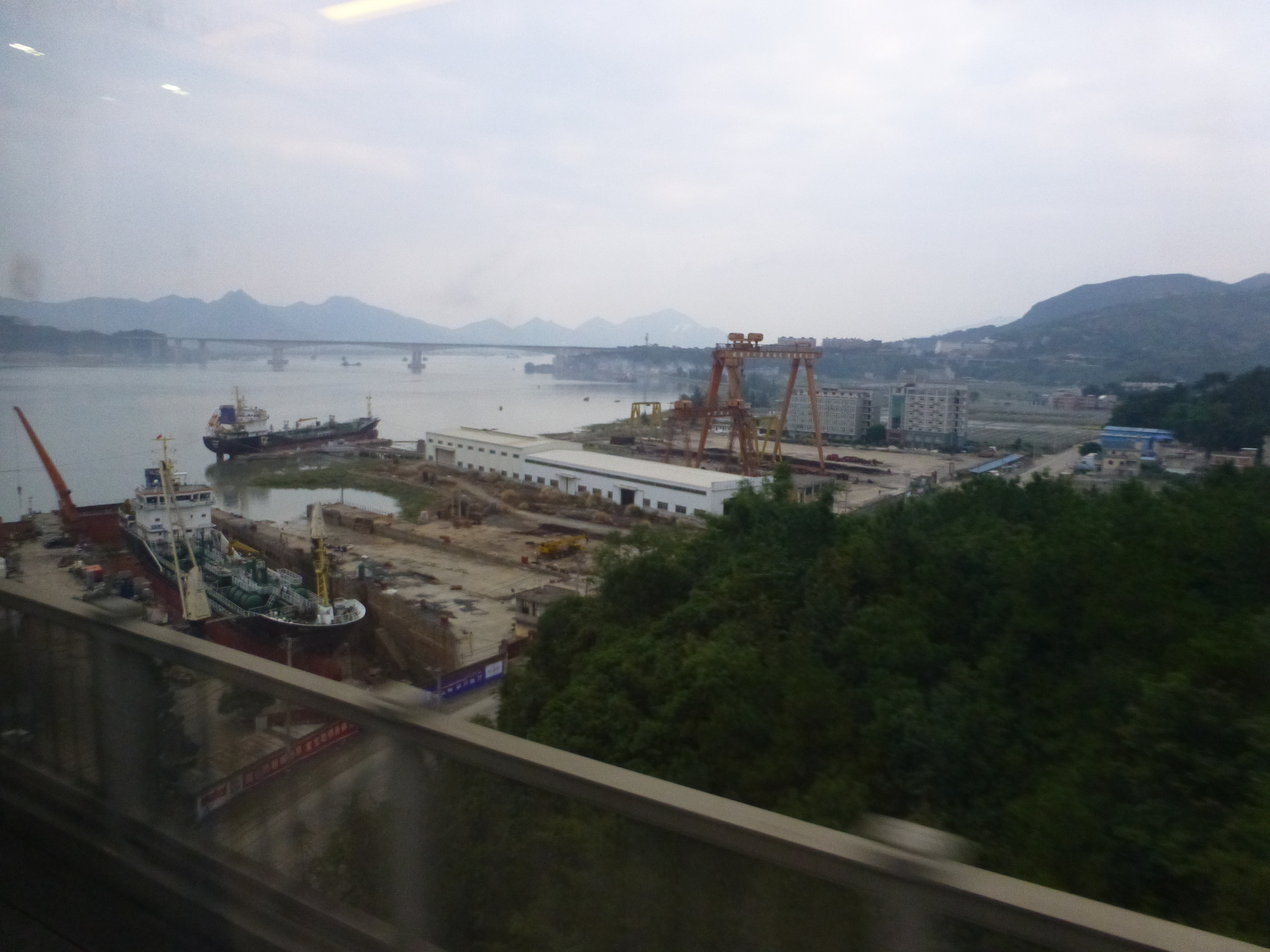 Baima River, near Fu'an Railway Station, seen from a train